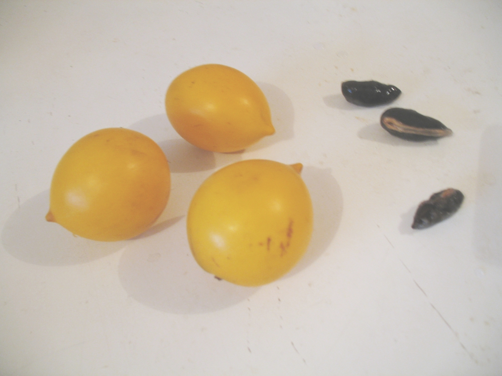 Fruits and seeds of tropical Abiu - Pouteria caimito.